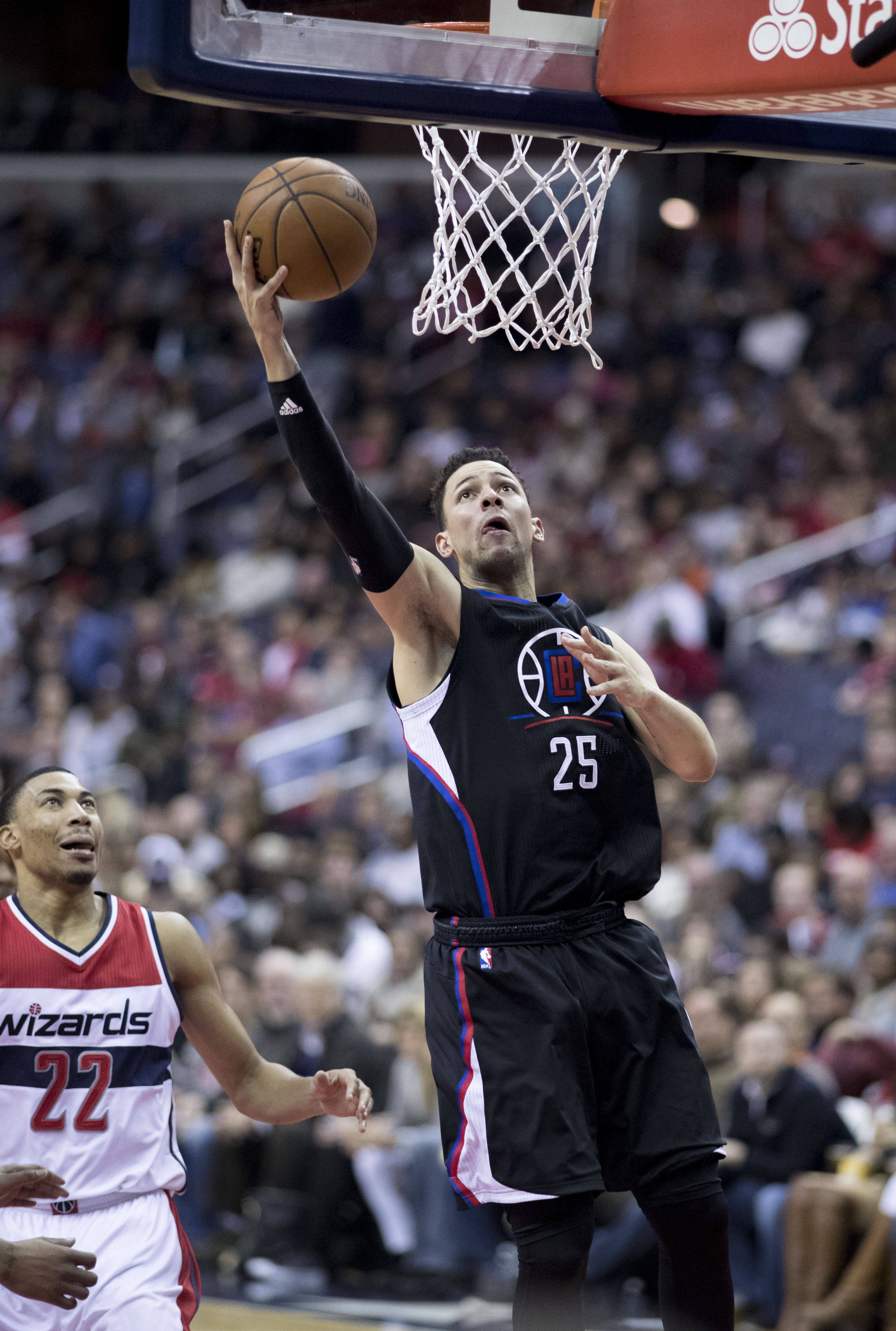 Clippers at Wizards 12/18/16